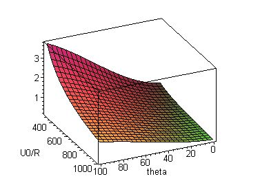 This figure shows how the absolute temperature may be derived from knowledge of the adiabatic curves of a fluid